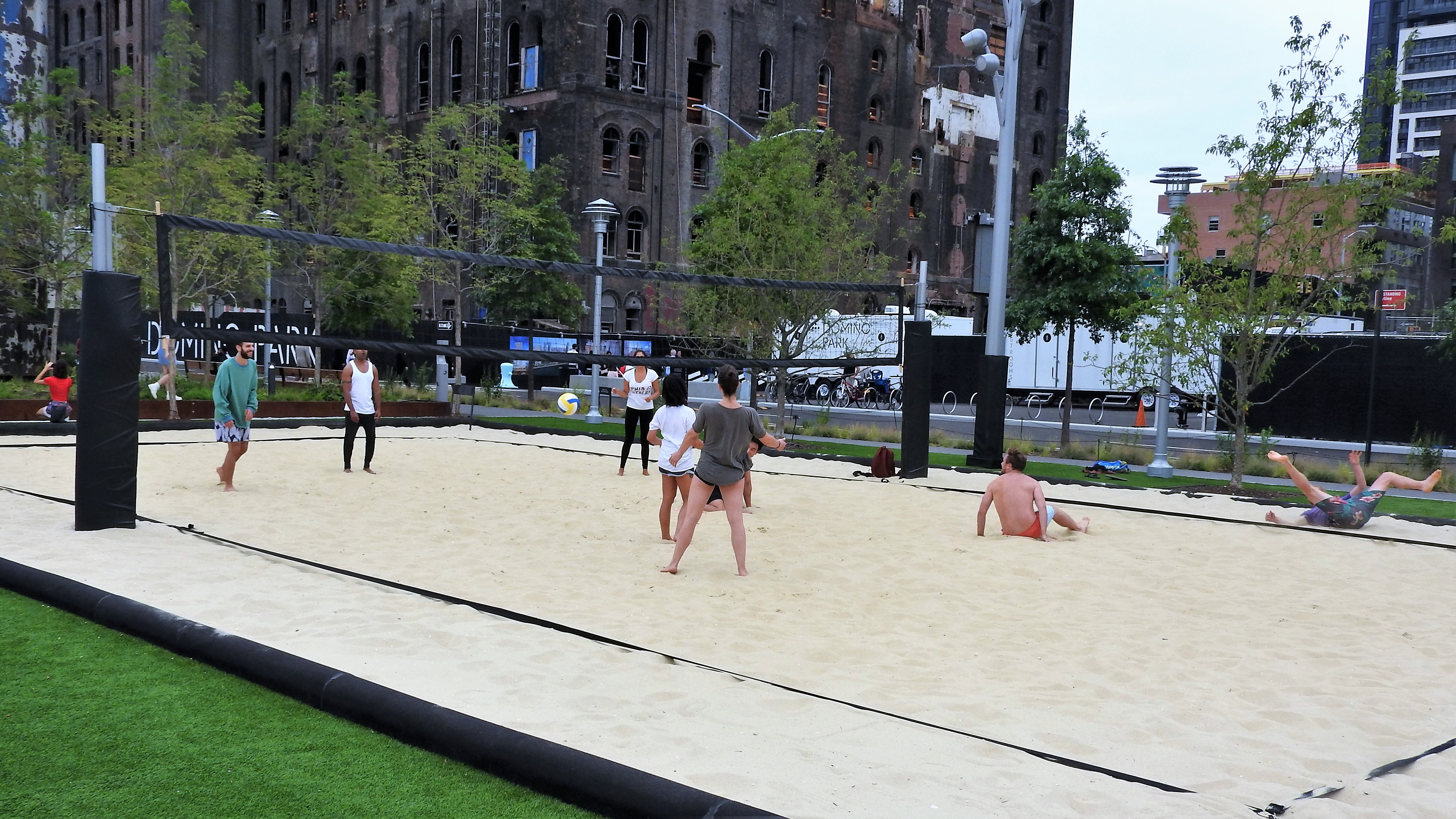 Looking east at volleyball court